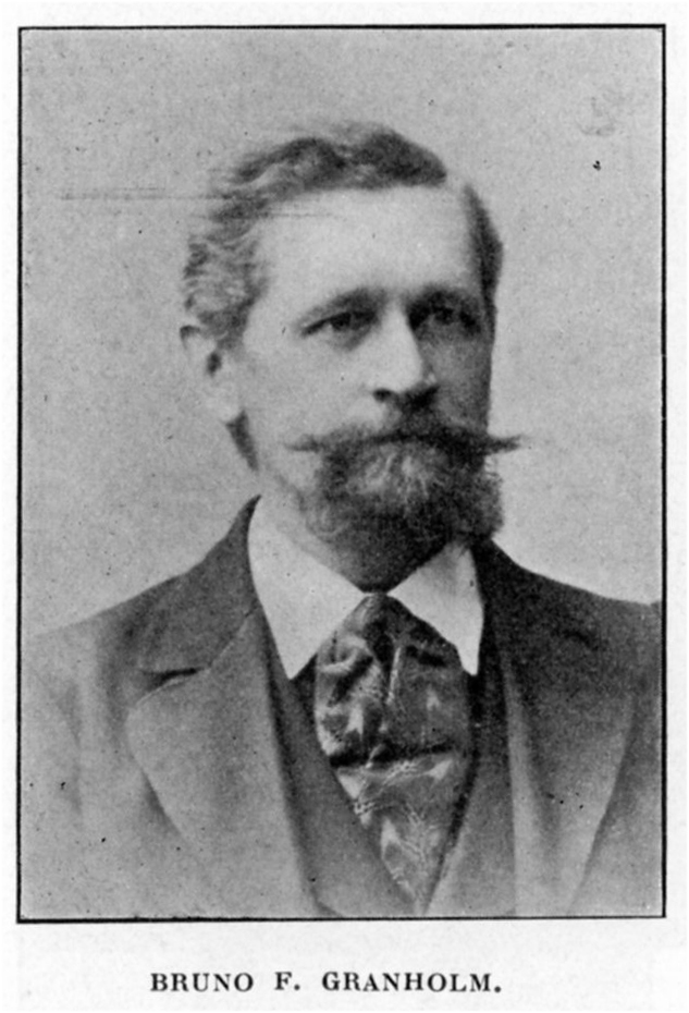 The main architect in Finnish Railroads Bruno Granholm